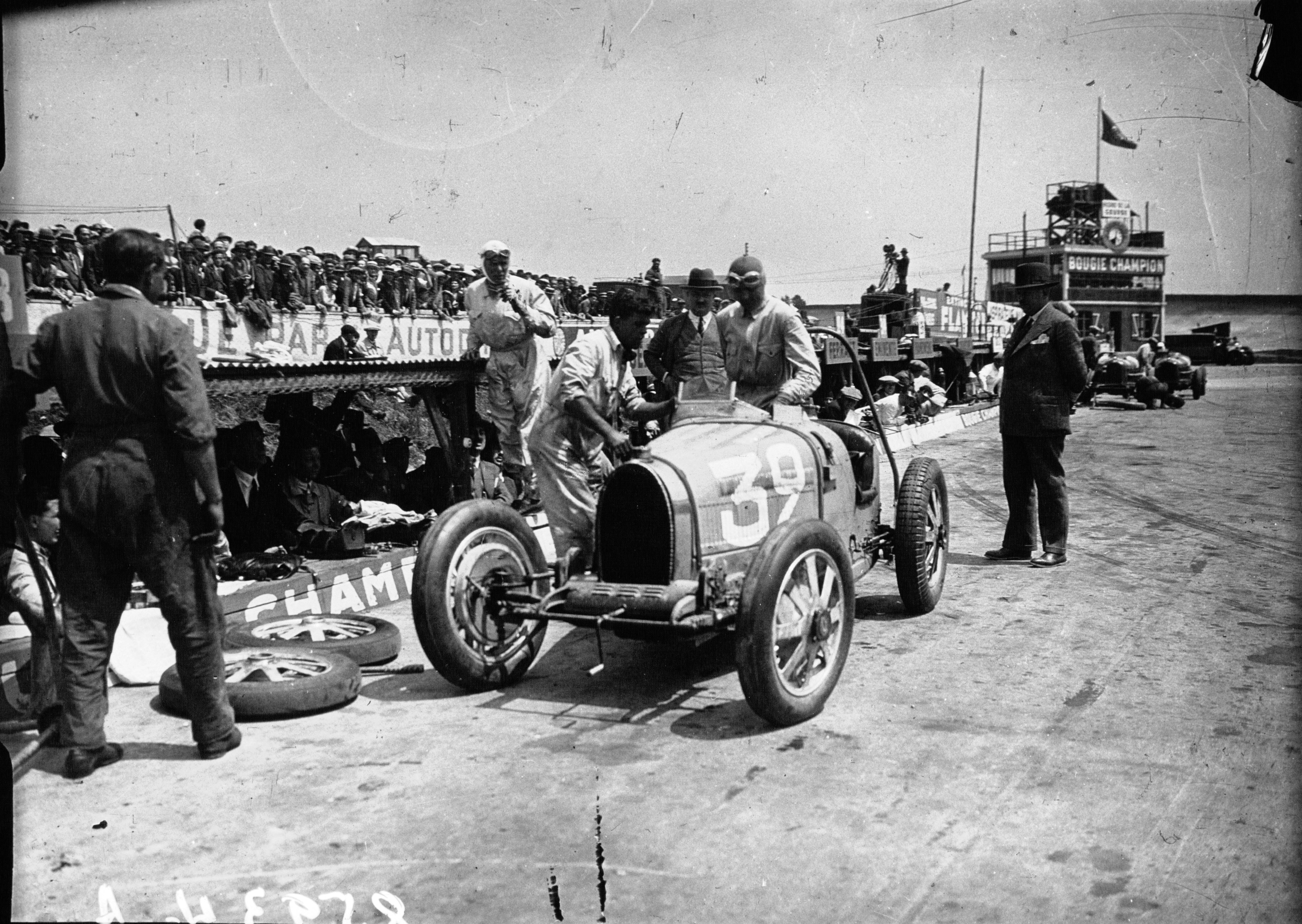 Louis Chiron (in the car) and Achille Varzi (standing in the back, leaning on to something) pitting at the 1931 French Grand Prix. Mechanic Lucien Wurmser in the middle, doing something with the car.